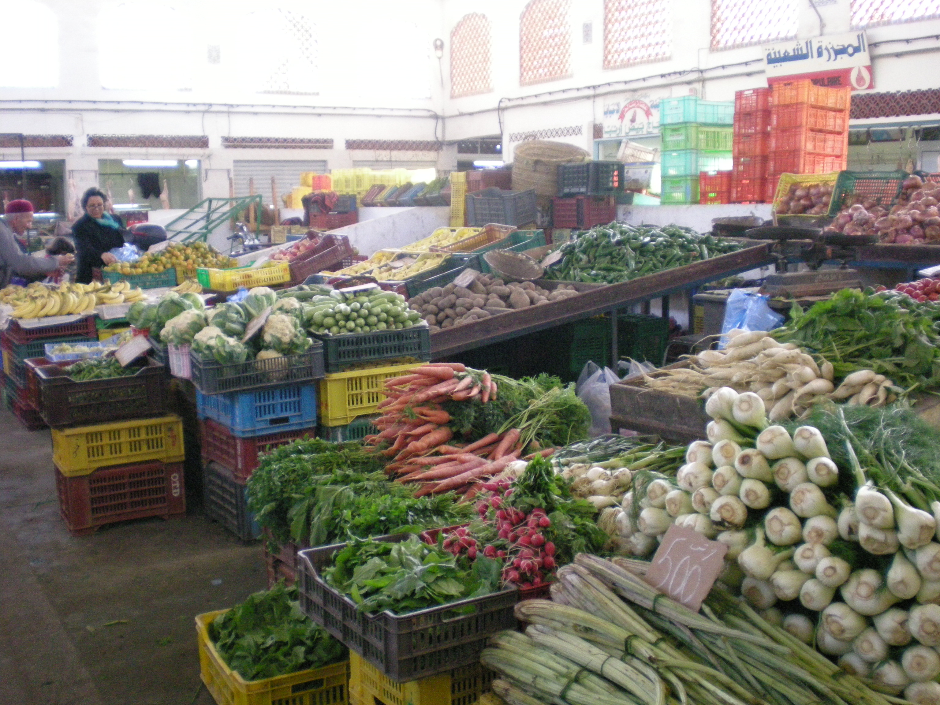 Ras Jebel's Market, photo 1, north of Tunisia